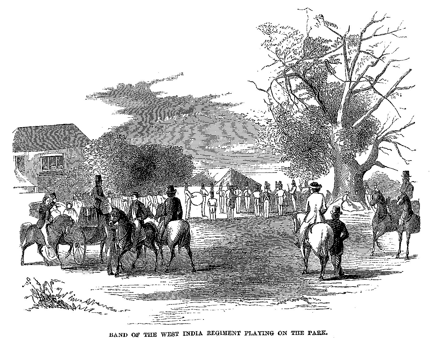 "Band of the West India Regiment Playing on the Park", illustration of article "Cast-away in Jamaica" by W.E. Sewell, in Harper's Monthly Magazine, January 1861.